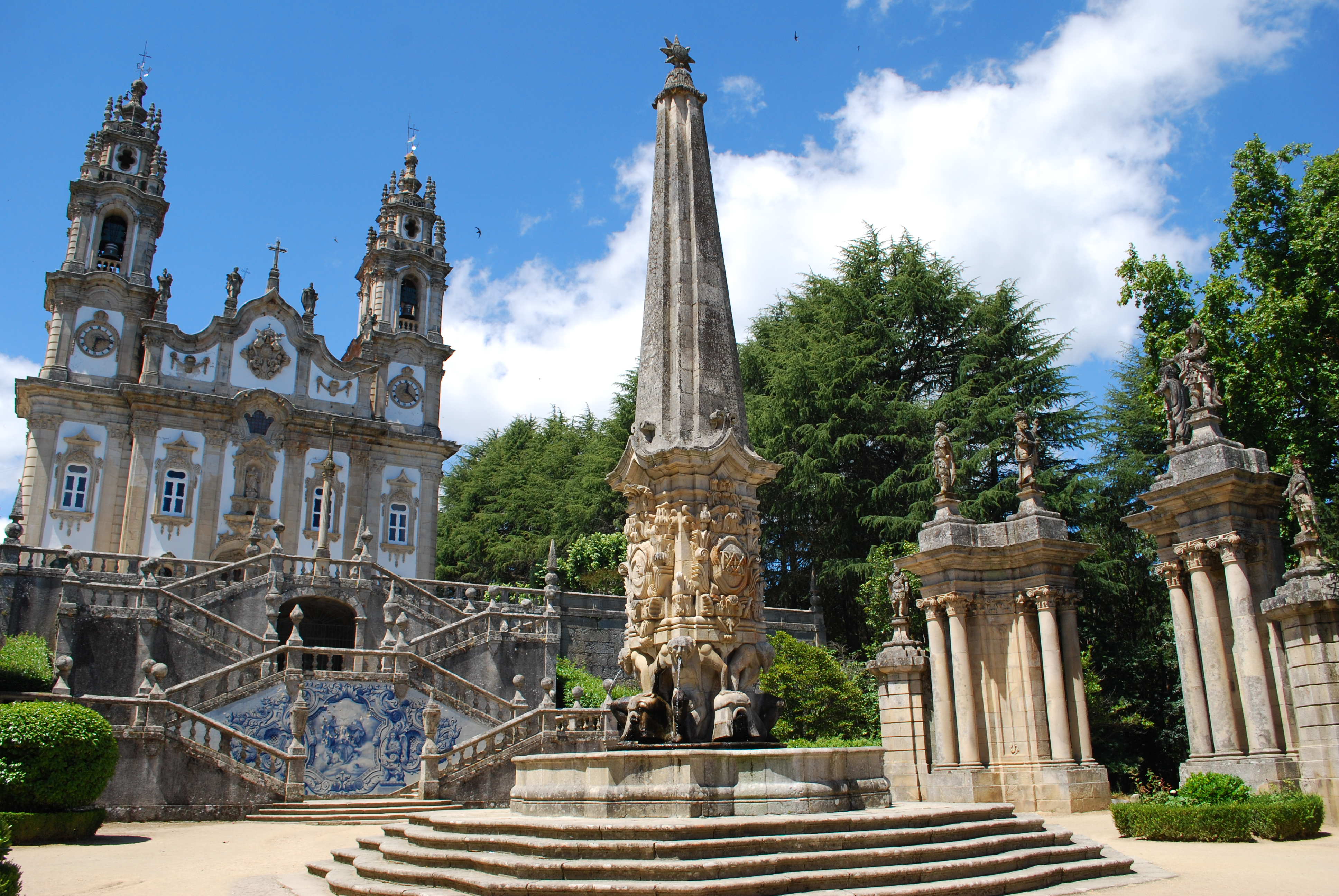 This file was uploaded for Wiki Loves Monuments in Portugal with the unique identifier 73818.